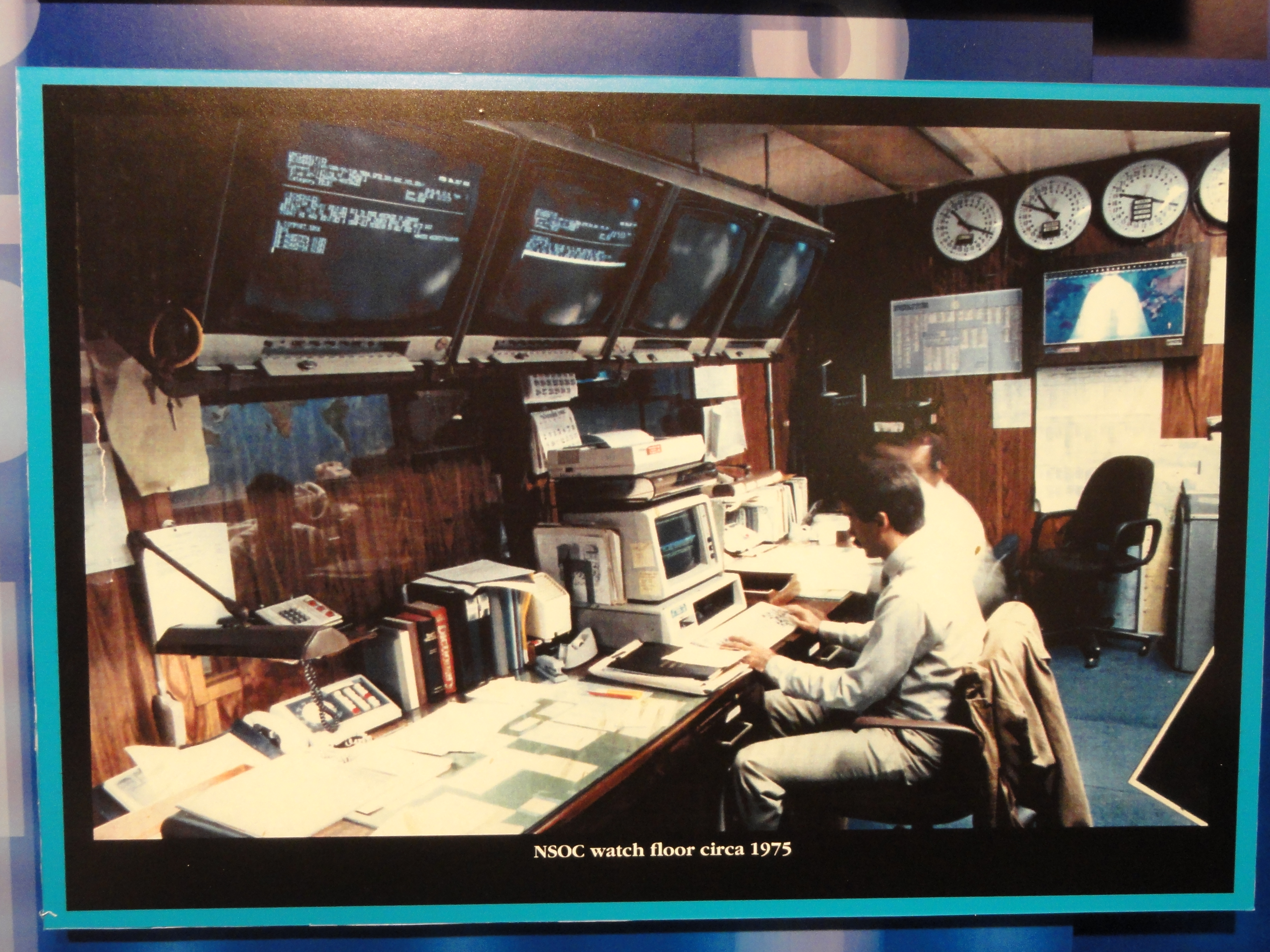 Exhibit in the National Cryptologic Museum, Fort Meade, Maryland, USA. All items in this museum are unclassified; items created by the United States Government are not subject to copyright restrictions.